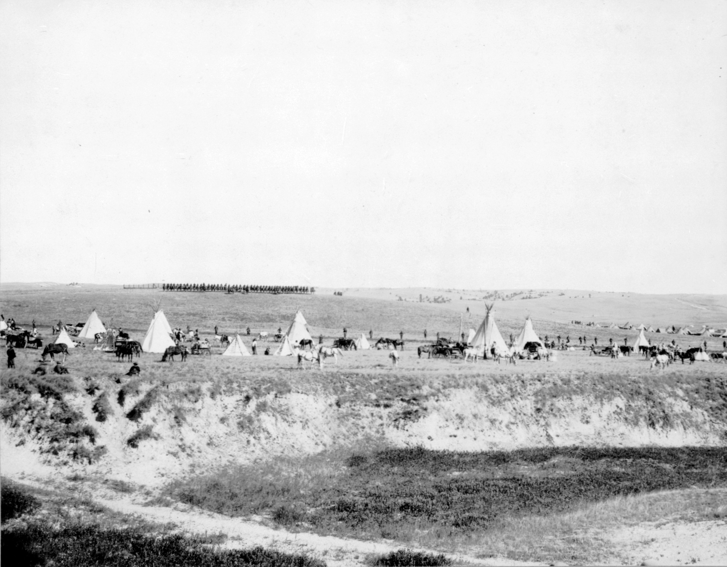 A line of U.S. troops in the background, and the Indian encampment at Wounded Knee. This is not the actual battle from 1890 but only its reenactment. See Library of Congress id link for information about the date of this image.